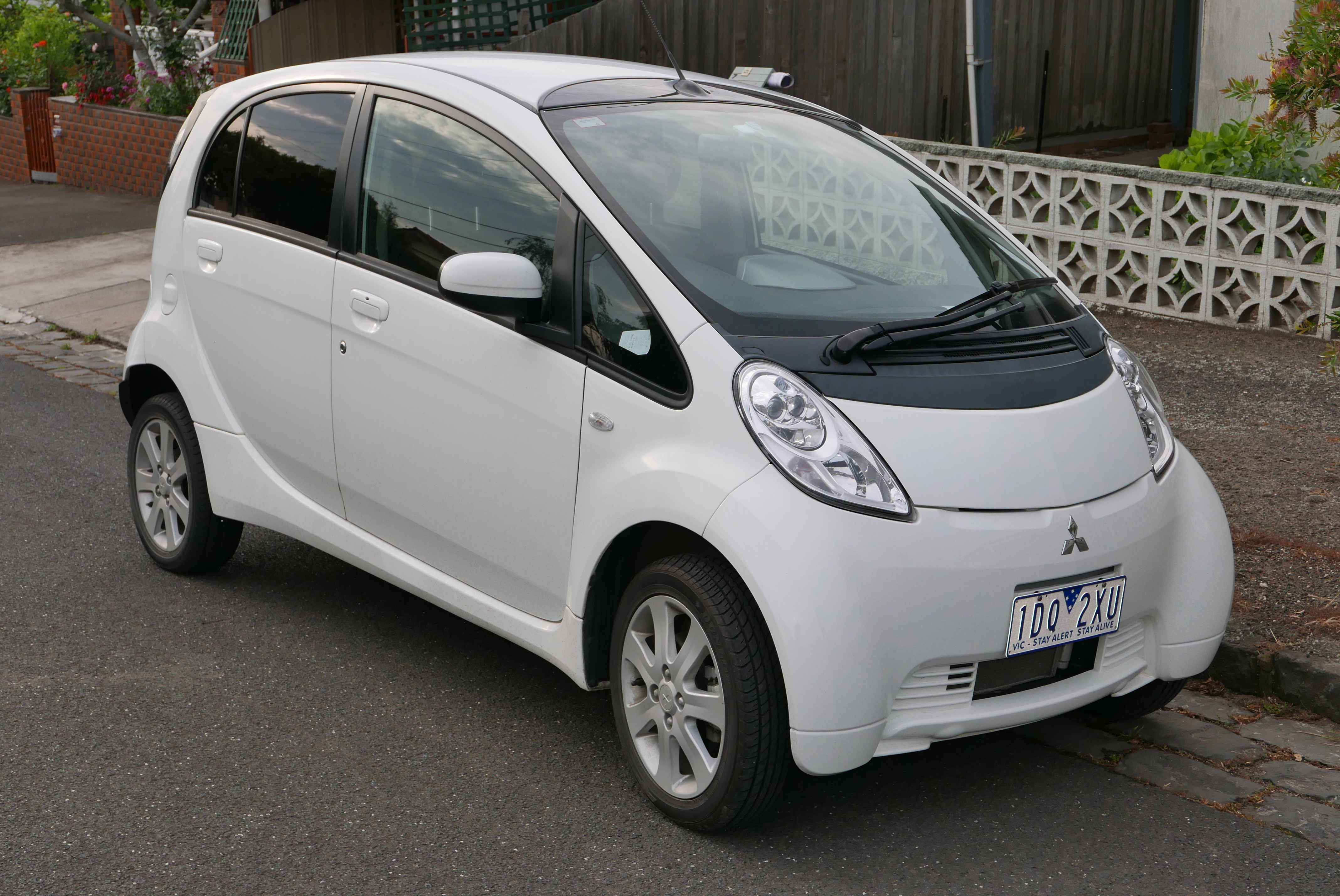 2010 Mitsubishi i-MiEV (GA MY10) hatchback. Photographed in Brunswick West, Victoria, Australia. Vehicle registration enquiry resultsJurisdictionVictoriaRegistration1DQ2XUChassis codeJMFLDHA1WAU002876Engine codeY4F1MF02825Compliance date2010-08Year of manufacture2010